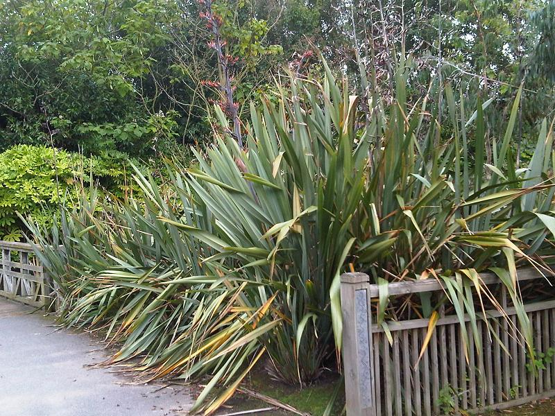 New Zealand flax, or harakeke in Māori (Phormium tenax) in WWT London Wetland Centre, England.